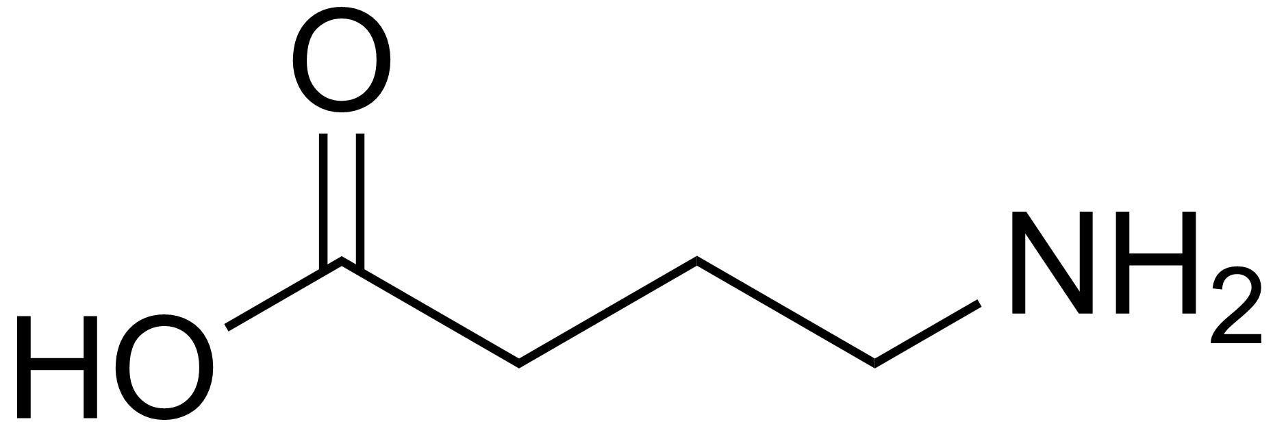 Chemical structure of Gamma-aminobutyric acid created with ChemDraw.